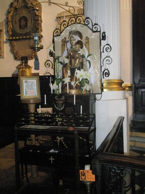 Icon within St Magnus-the-Martyr